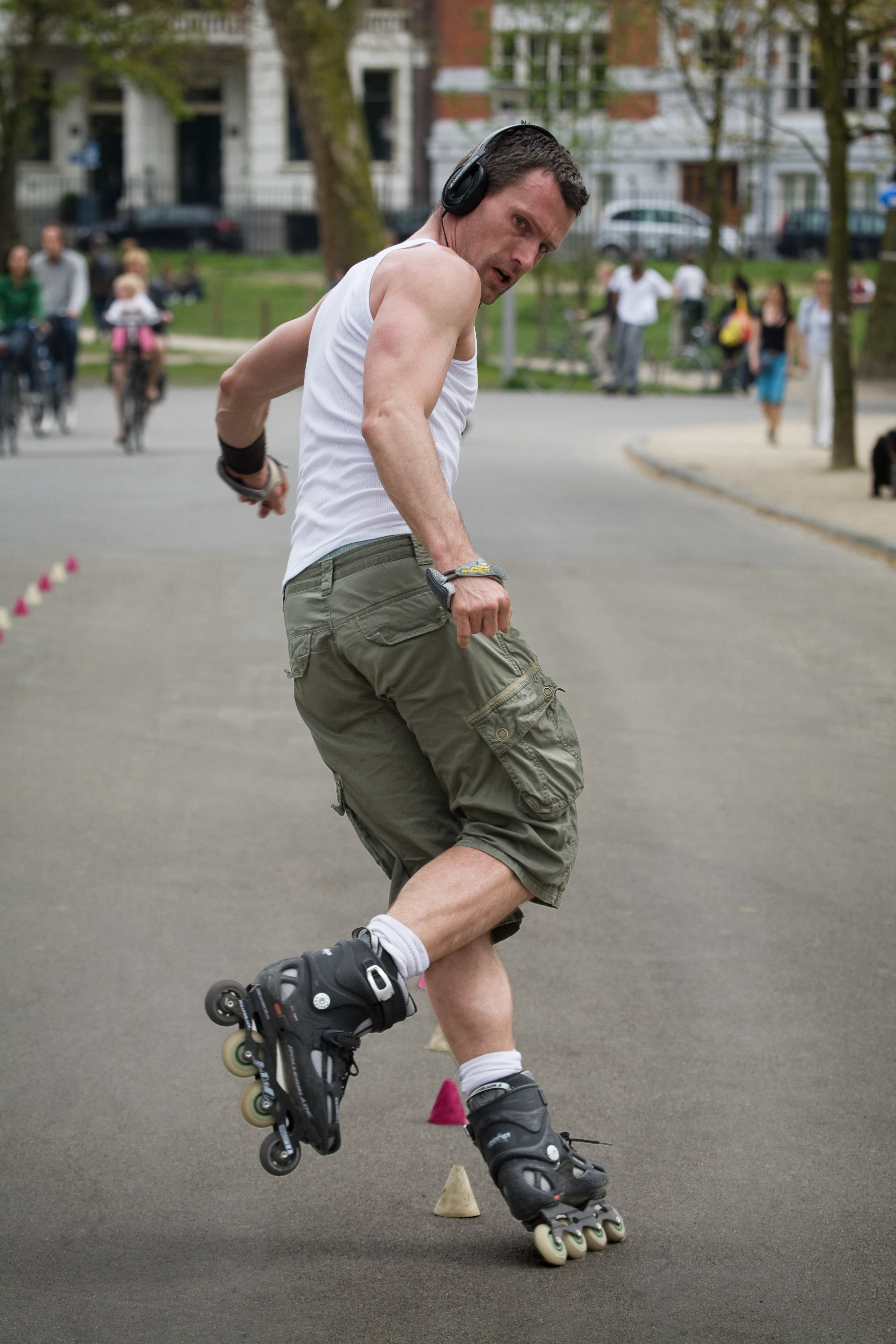 A skater in the Vondelpark. Amsterdam, The Netherlands